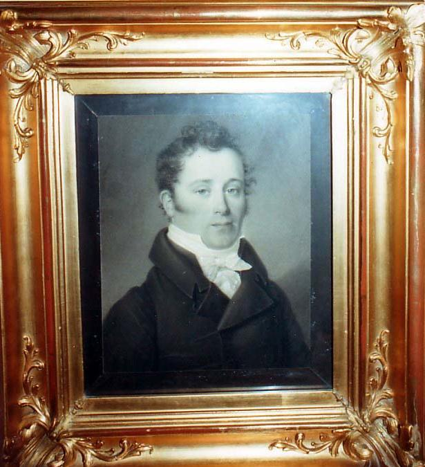 Swedish industrialist Aron von Reis (1777-1848), as released by image owner FamSACPlace: Probably Gothenburg, Sweden (photographed in Stockholm)